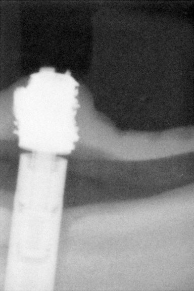 Dental implant